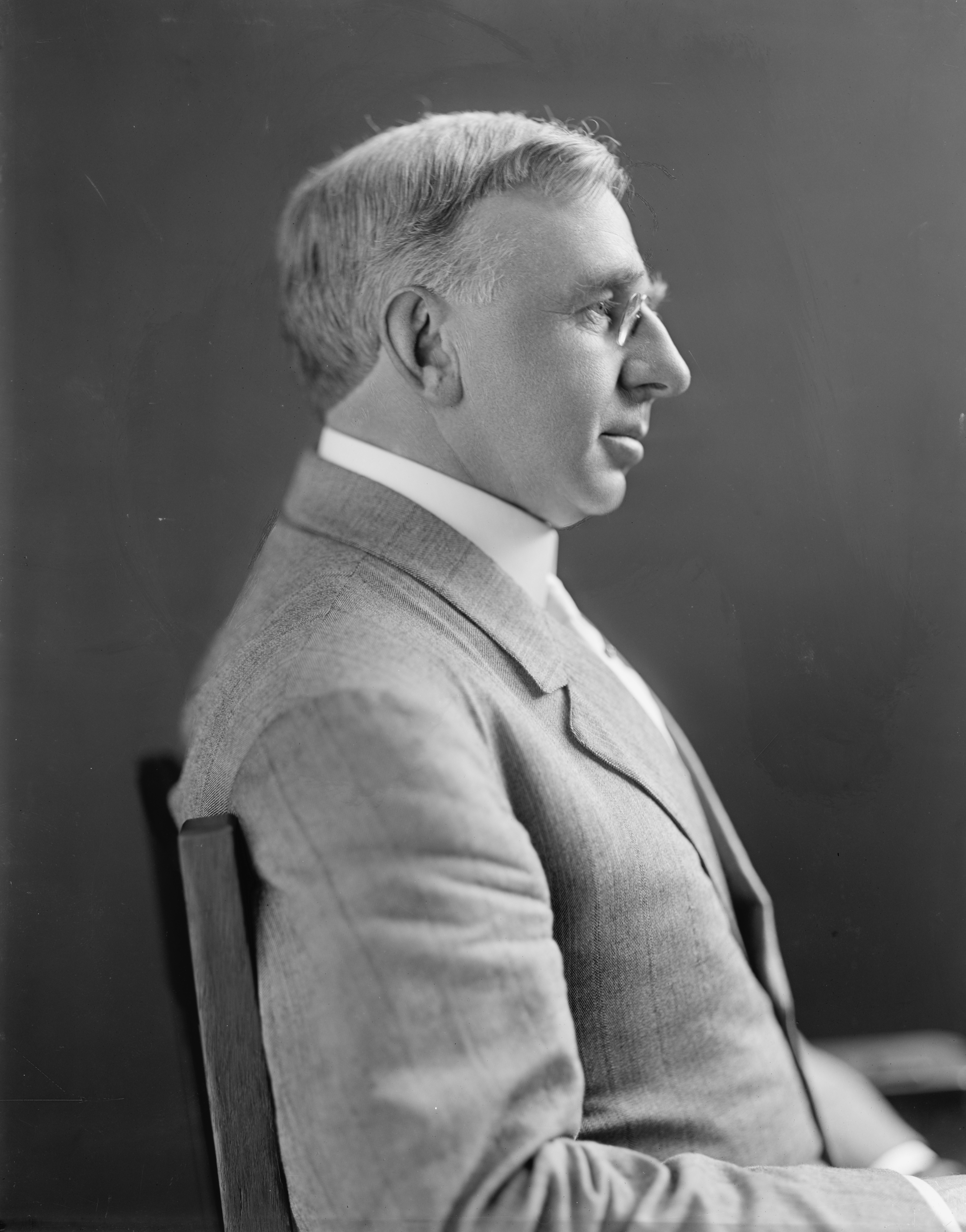 Title: LIVINGSTONE, COLIN H. Abstract/medium: 1 negative : glass ; 8 x 10 in. or smaller